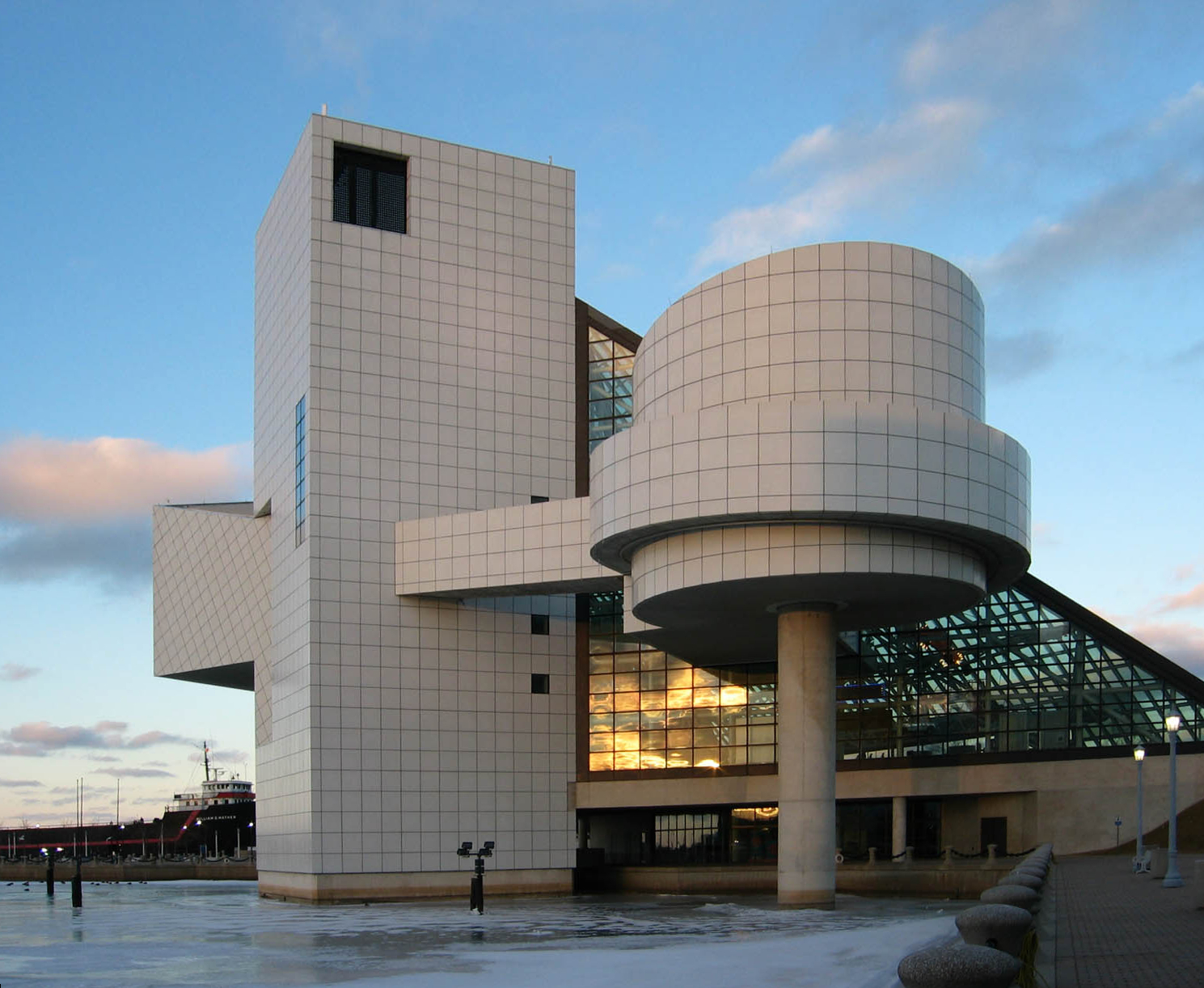 The Rock and Roll Hall of Fame, Cleveland, Ohio; architect: I. M. Pei